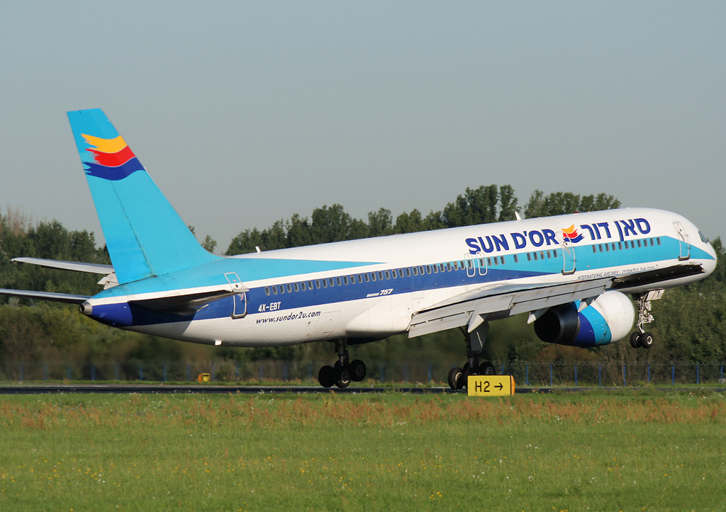 Sun d'Or International Airlines Boeing 757-200 lands in Warsaw